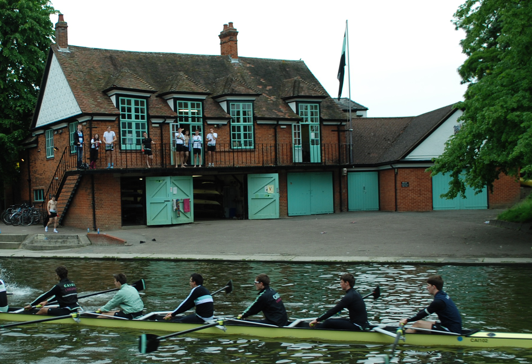 Caius Boat Club boathouse with M1 in the foreground, warming up on the way to div 1, friday, Mays. See-also: File:DSC 0618-queens-boat-house.JPG